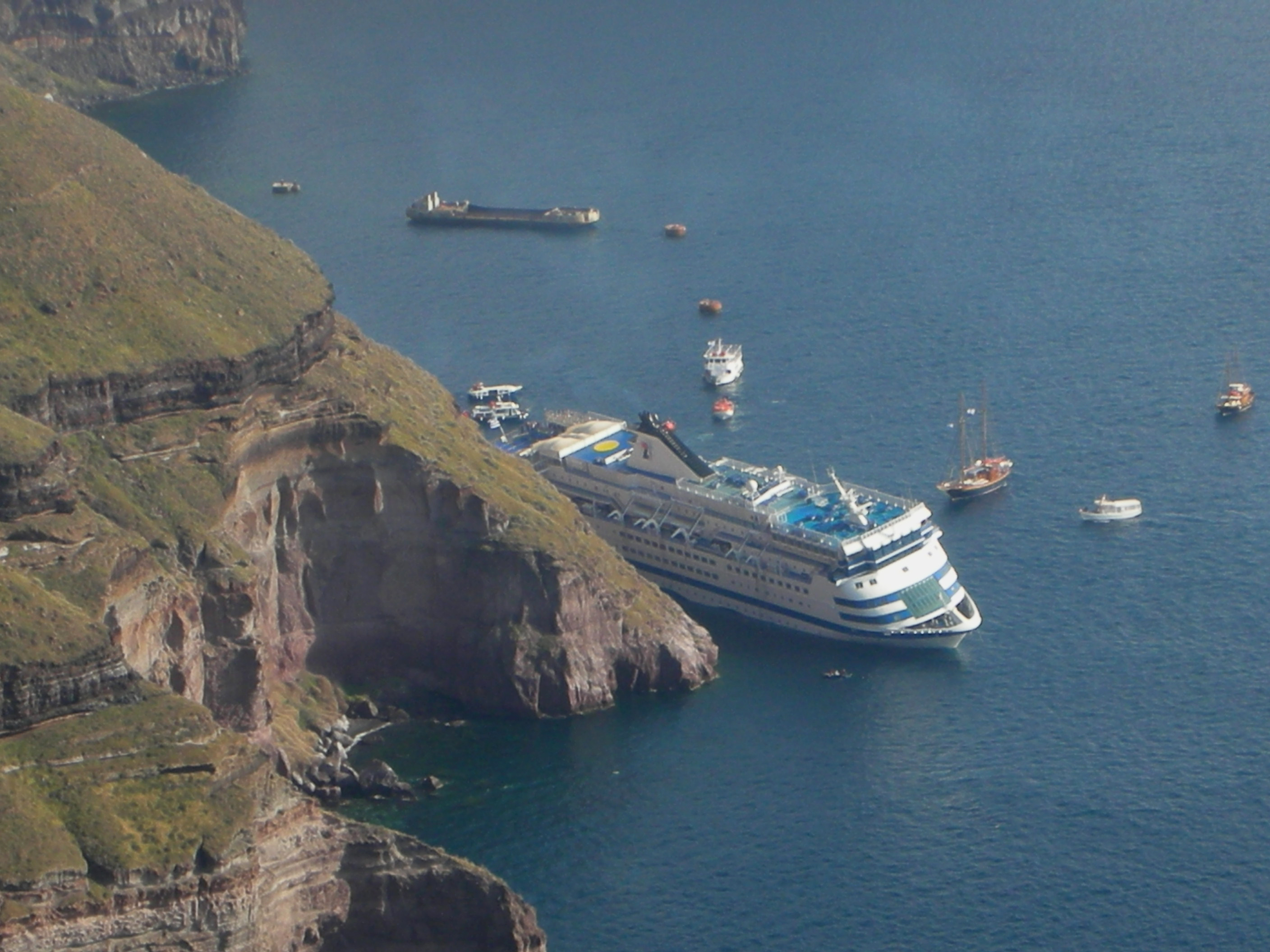 Attempts to keep the stricken Sea Diamond from sinking